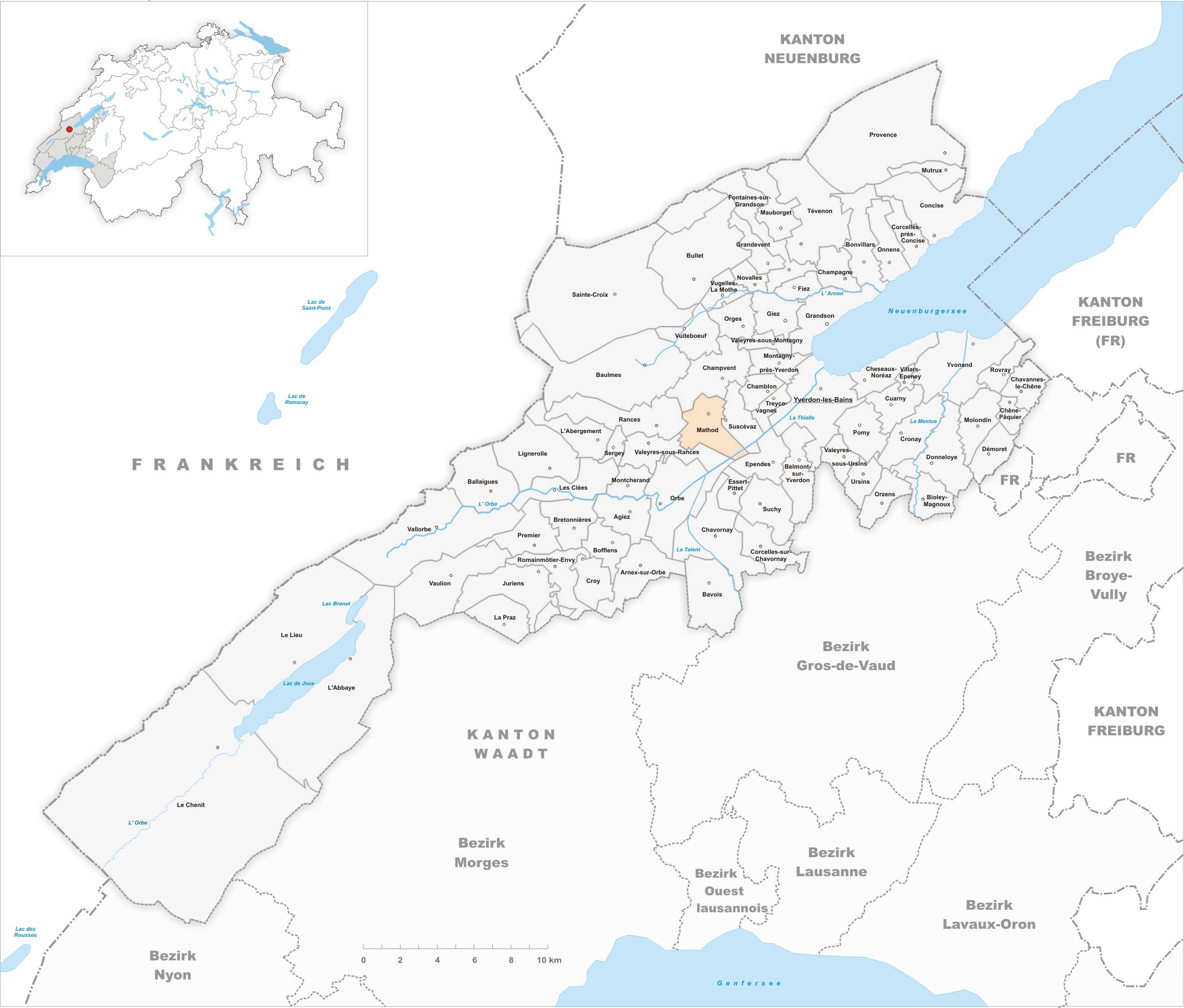 Municipality Mathod